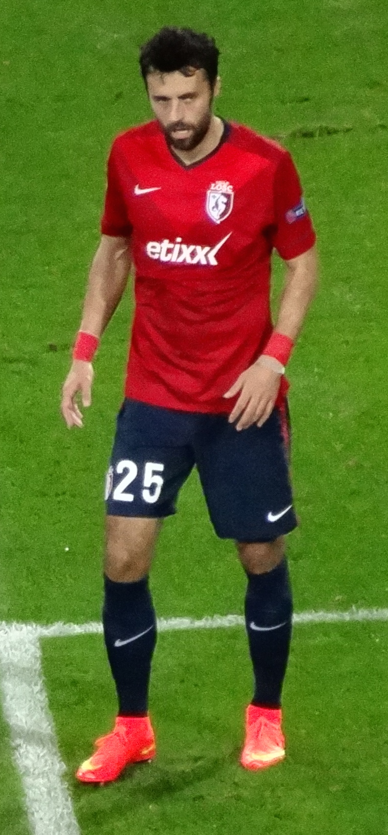 Marko Baša (LOSC Lille)